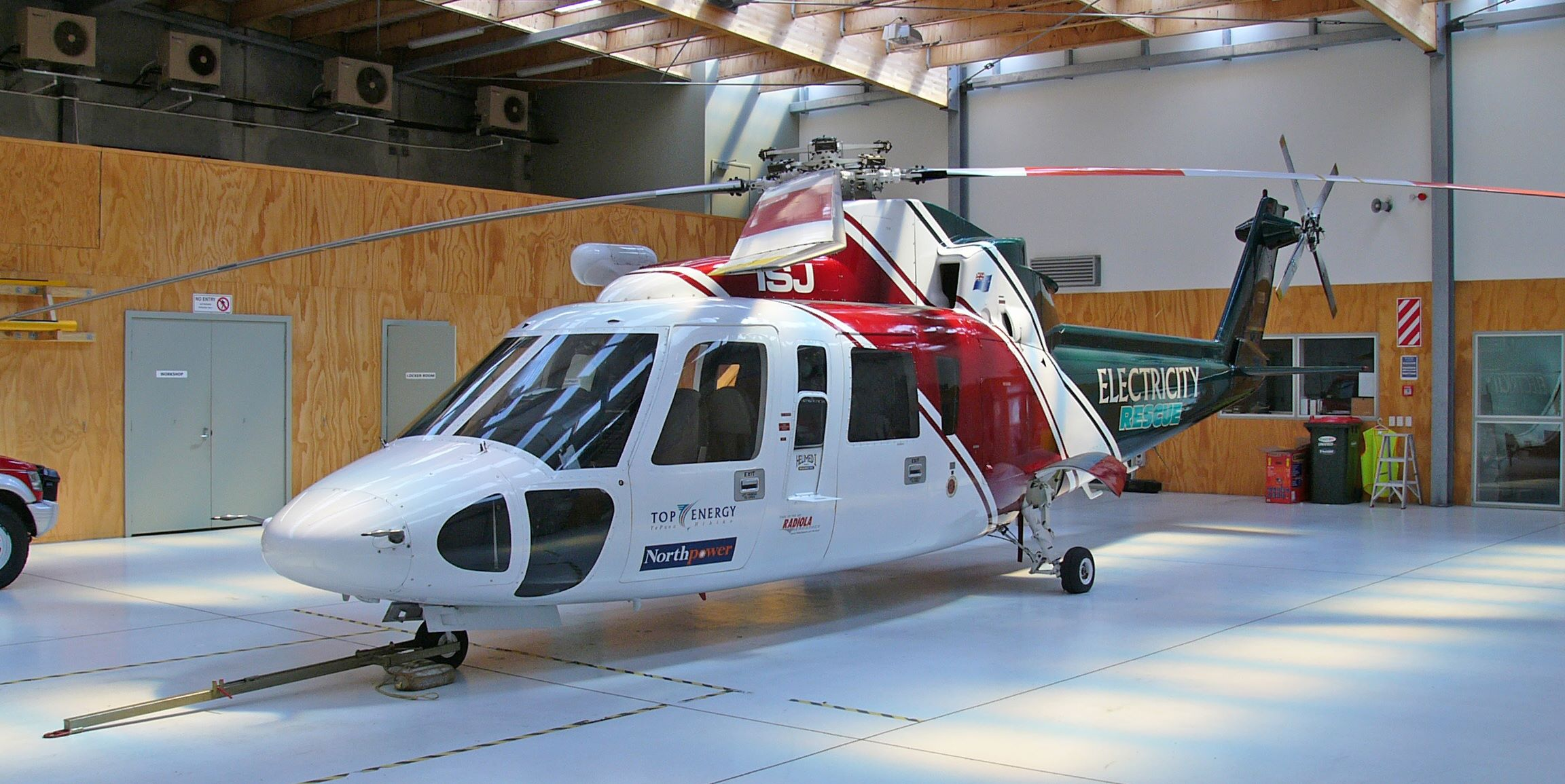 The Northland Emergency Services Trust helicopter. More photos at